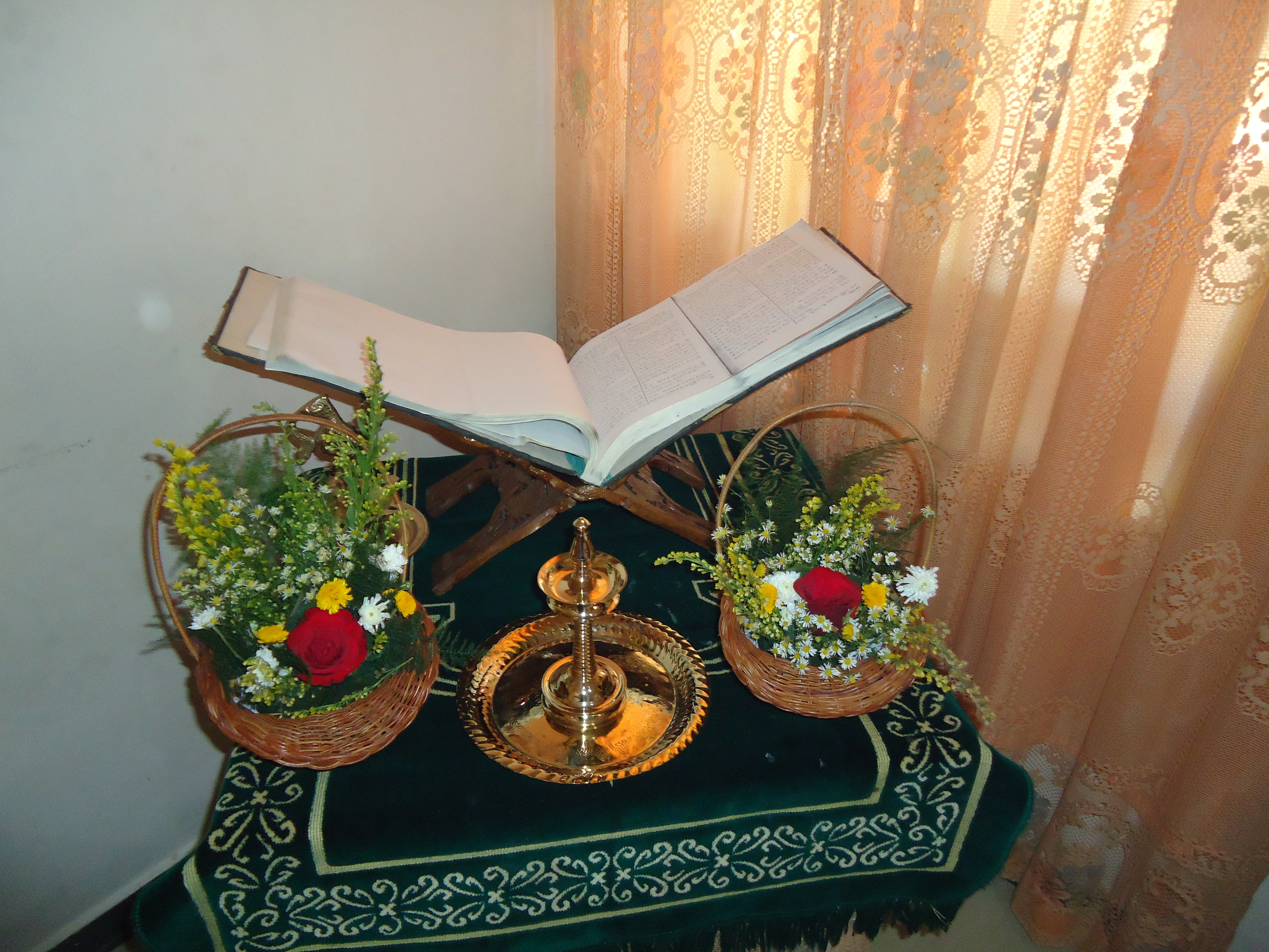 The Copy of Translated Holy Bible By Kayamkulam Philipose Ramban